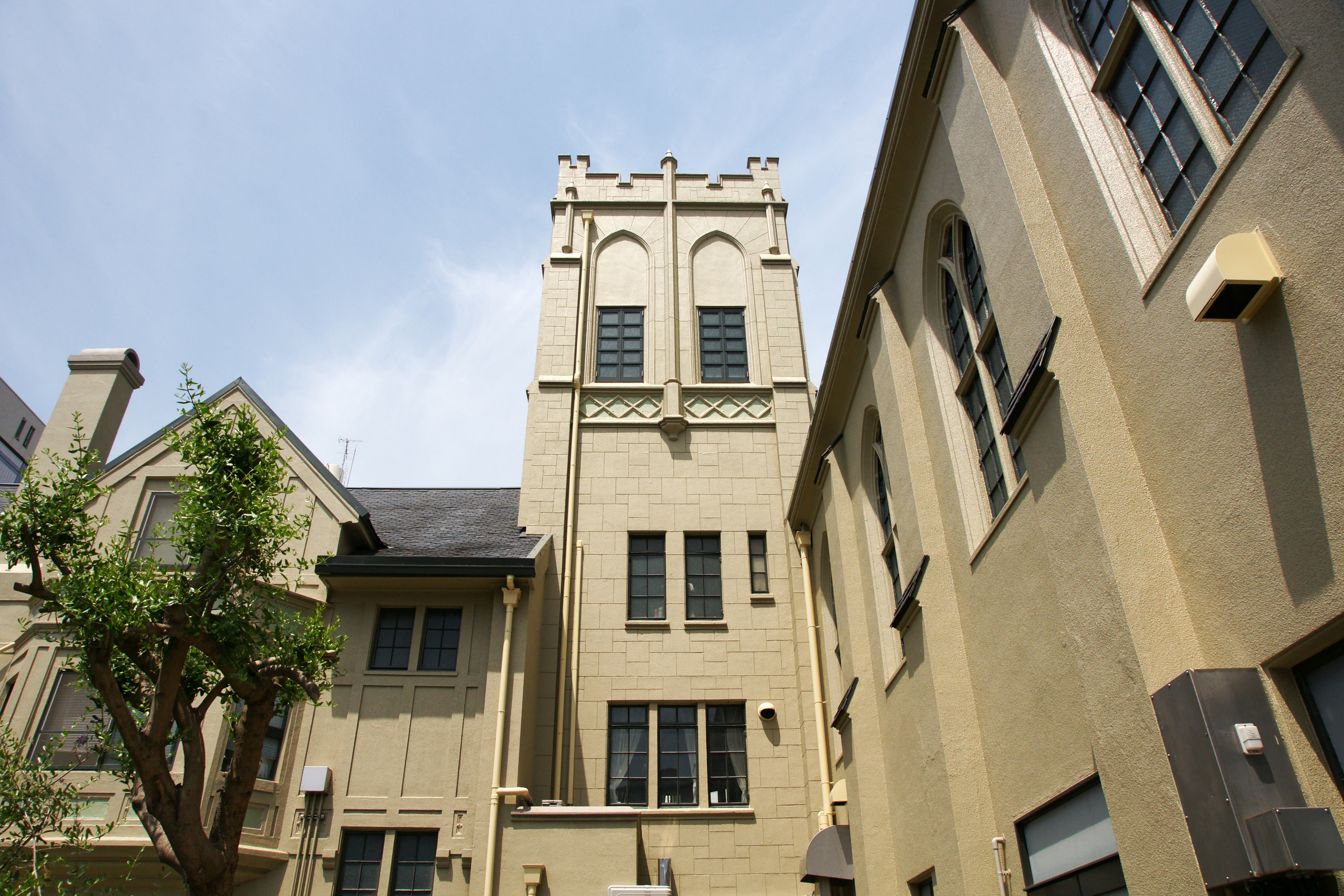 Former Kobe Union Church (Cafe FREUNDLIEB) in Kobe, Hyogo prefecture, Japan